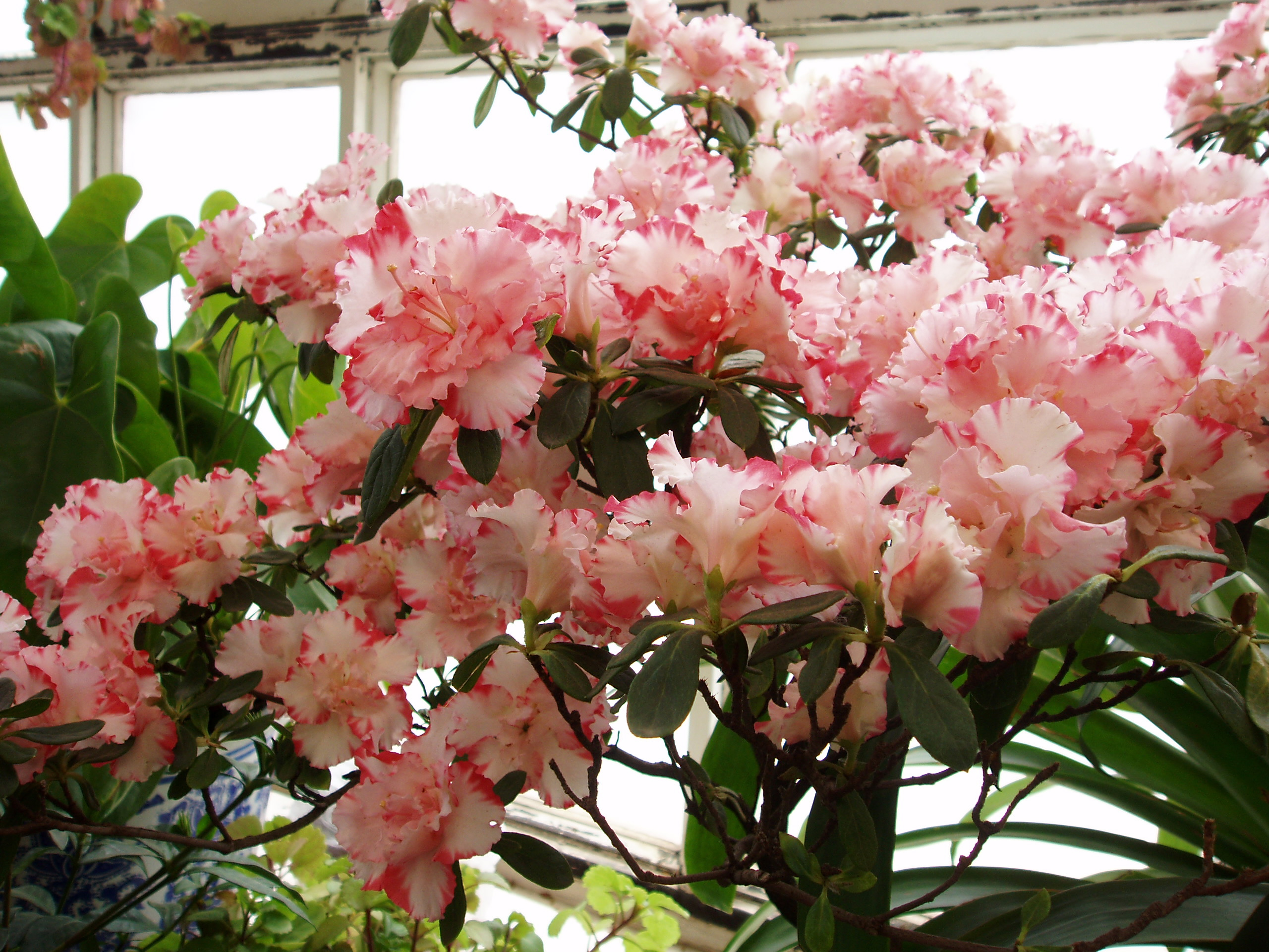 Azalea flowers